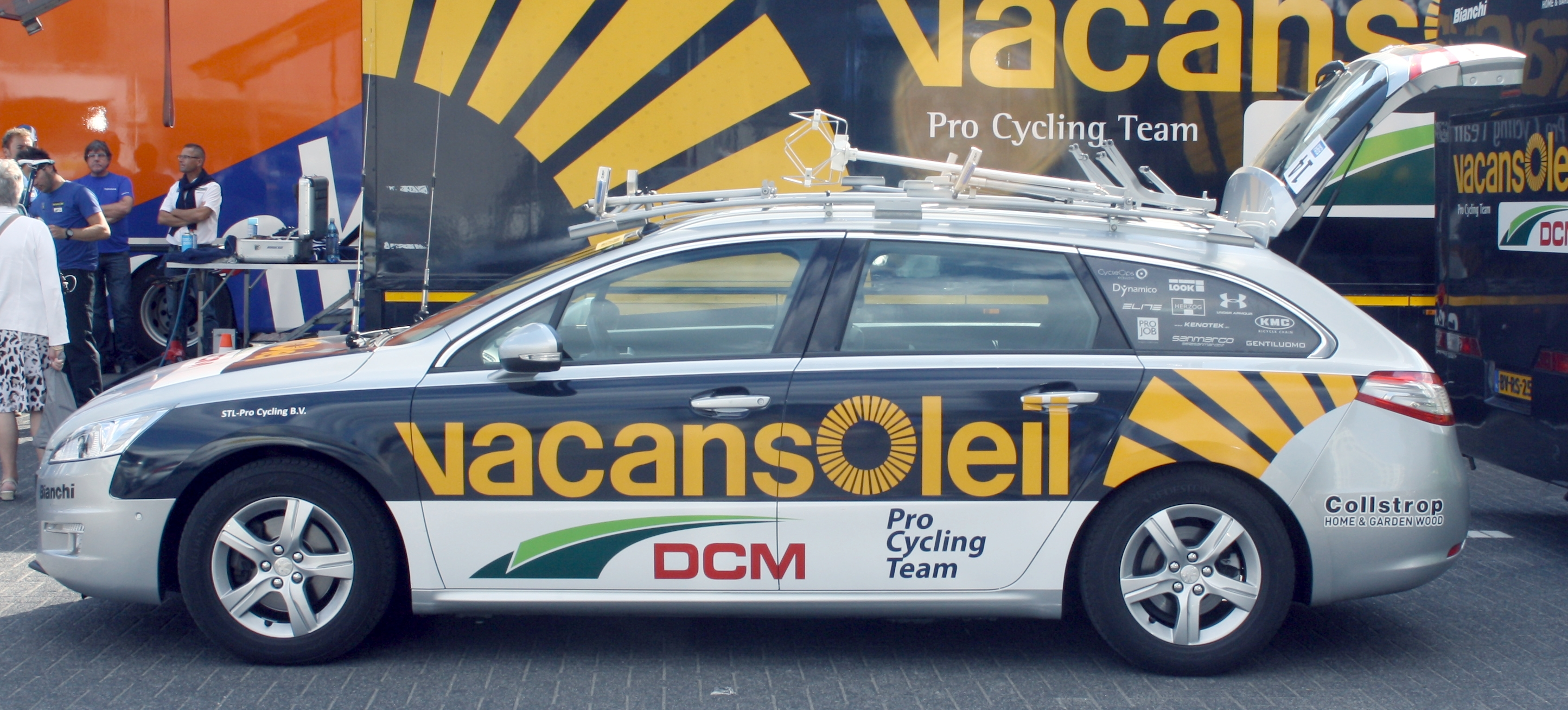 Vacansoleil car after the finish of the World Ports Classic 2012 in Rotterdam